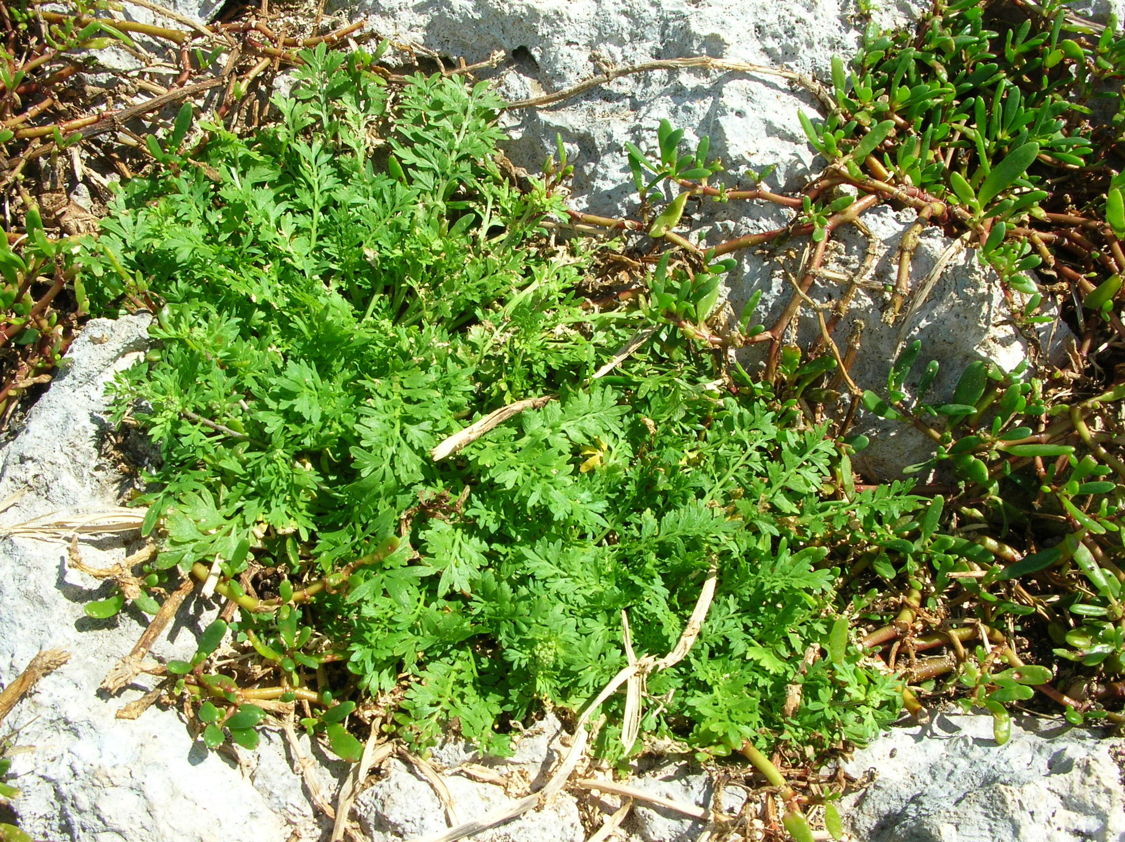 Coronopus didymus (habit). Location: Oahu, Popoia